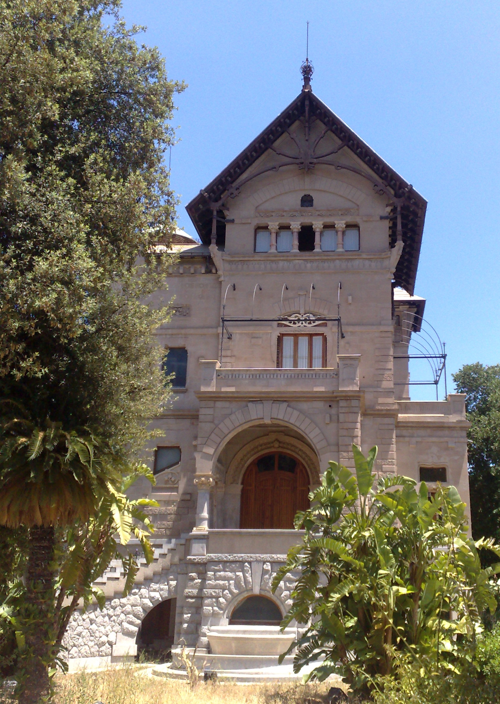 Villino Florio, Art Nouveau villa in Palermo, by Ernesto Basile.